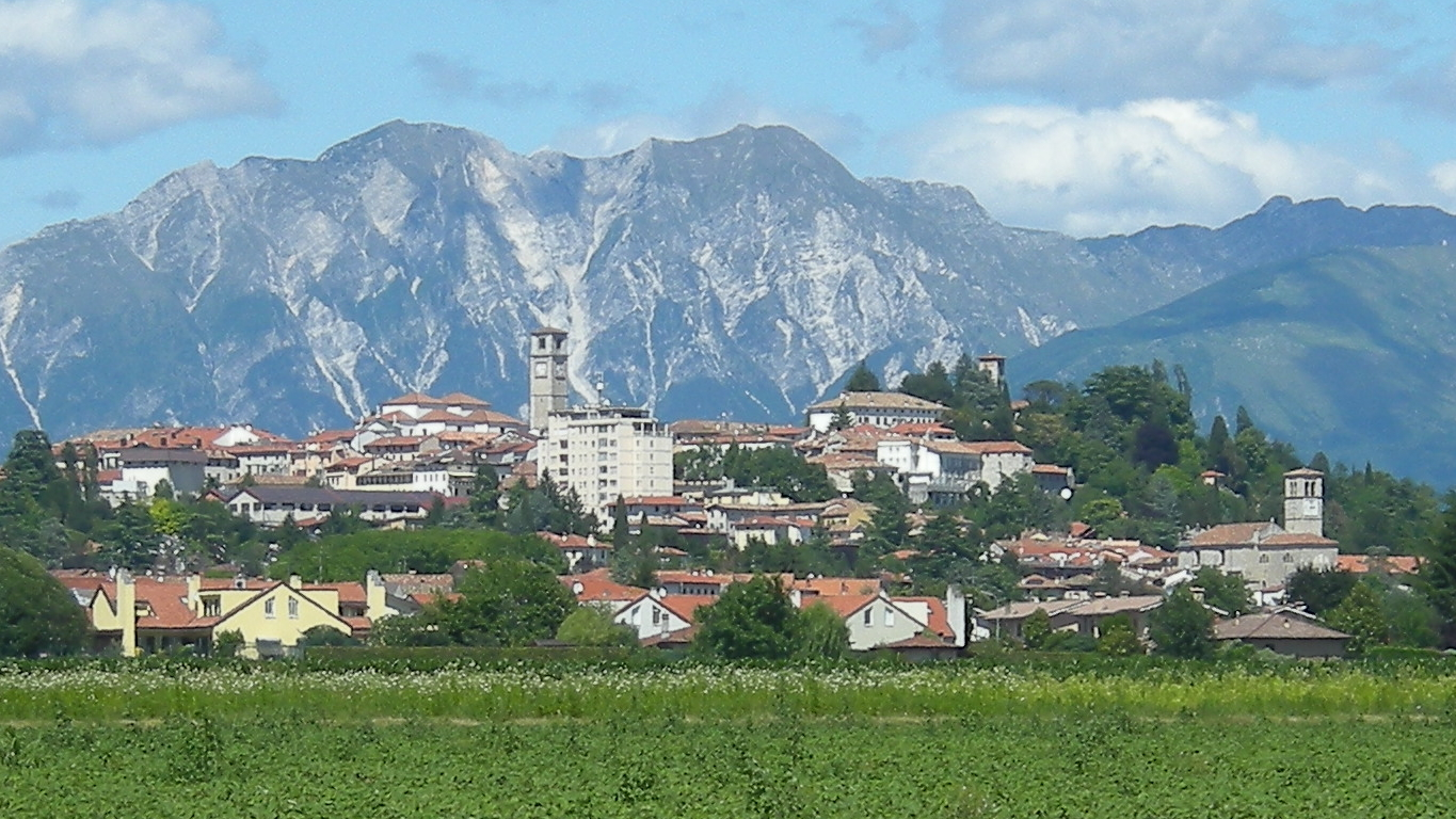 San Daniele del Friuli - Italy